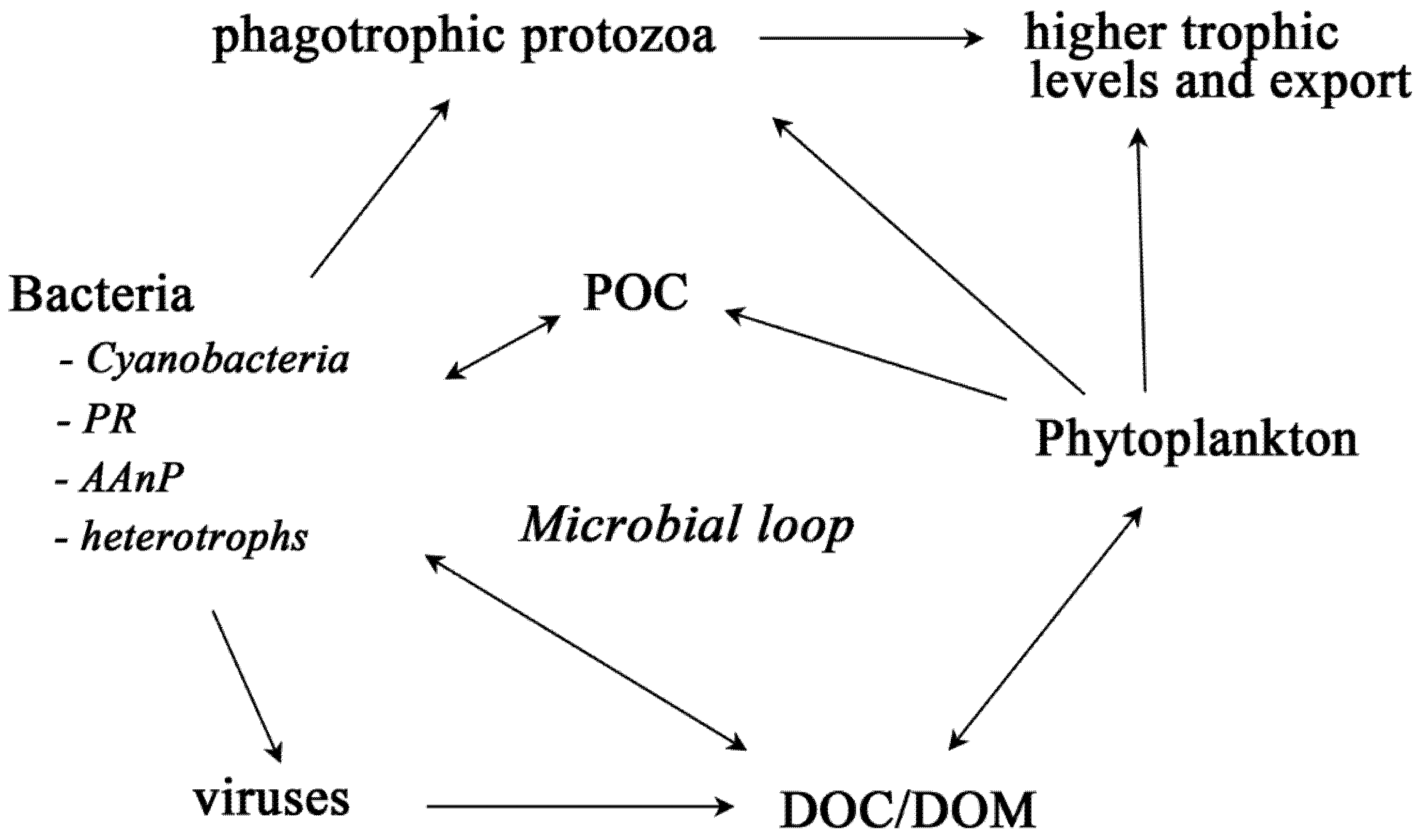 Sea ice food web and the microbial loop. AAnP = aerobic anaerobic phototroph, DOC = dissolved organic carbon, DOM = dissolved organic matter, POC = particulate organic carbon, PR = proteorhodopsins. The microbial loop here is re-drawn and abridged from: Azam, F., Fenchel, T., Field, J.G., Gray, J.S., Meyer-Reil, L.A. and Thingstad, F. (1983) "The ecological role of water-column microbes in the sea". Marine ecology progress series, 10(3): 257–263. Fenchel, T. (2008) "The microbial loop–25 years later". Journal of Experimental Marine Biology and Ecology, 366(1-2): 99-103.